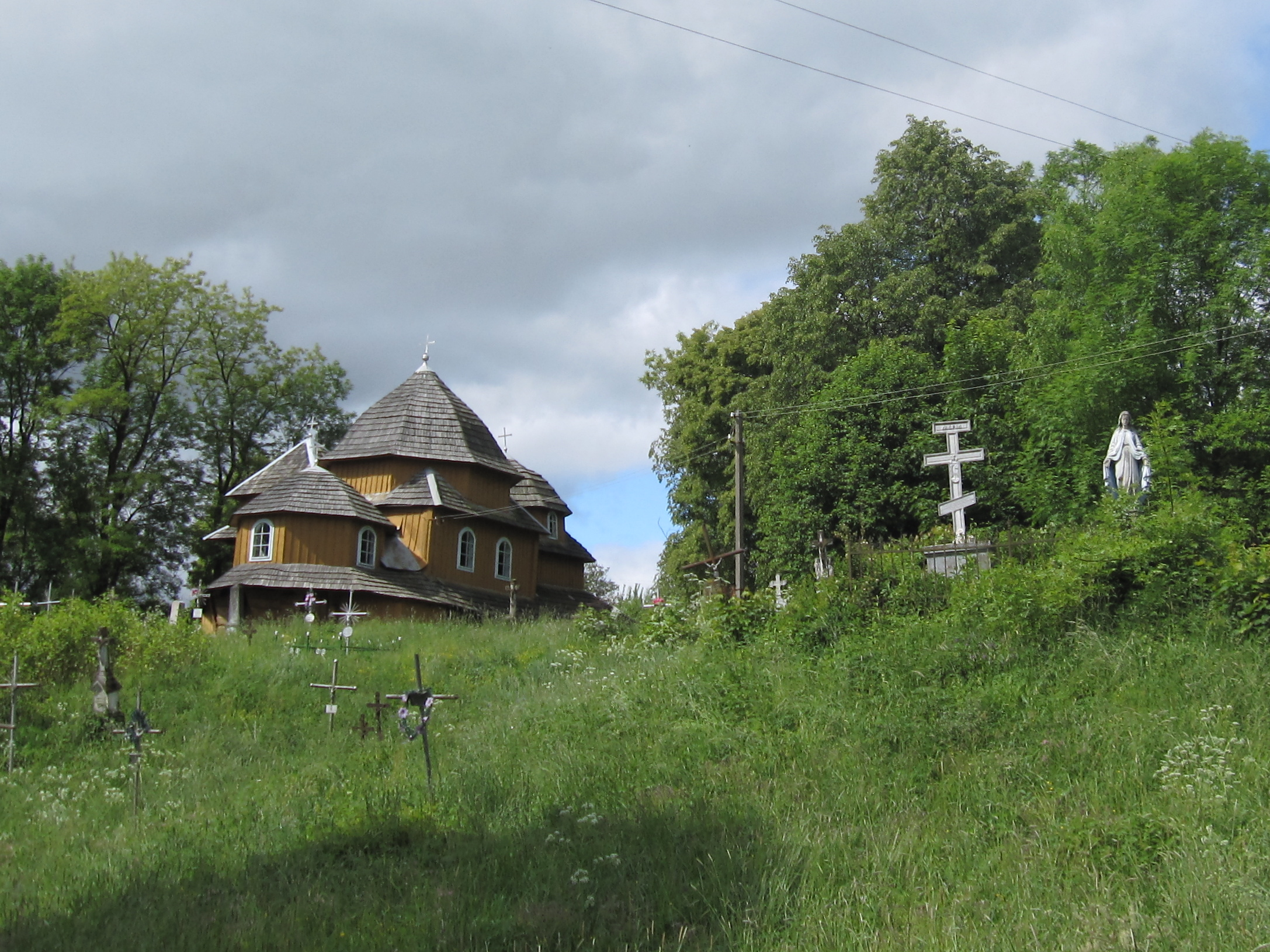 Church of Sielec with surrounding cemetery, Drohobych Raion in Galicia in western Ukraine.